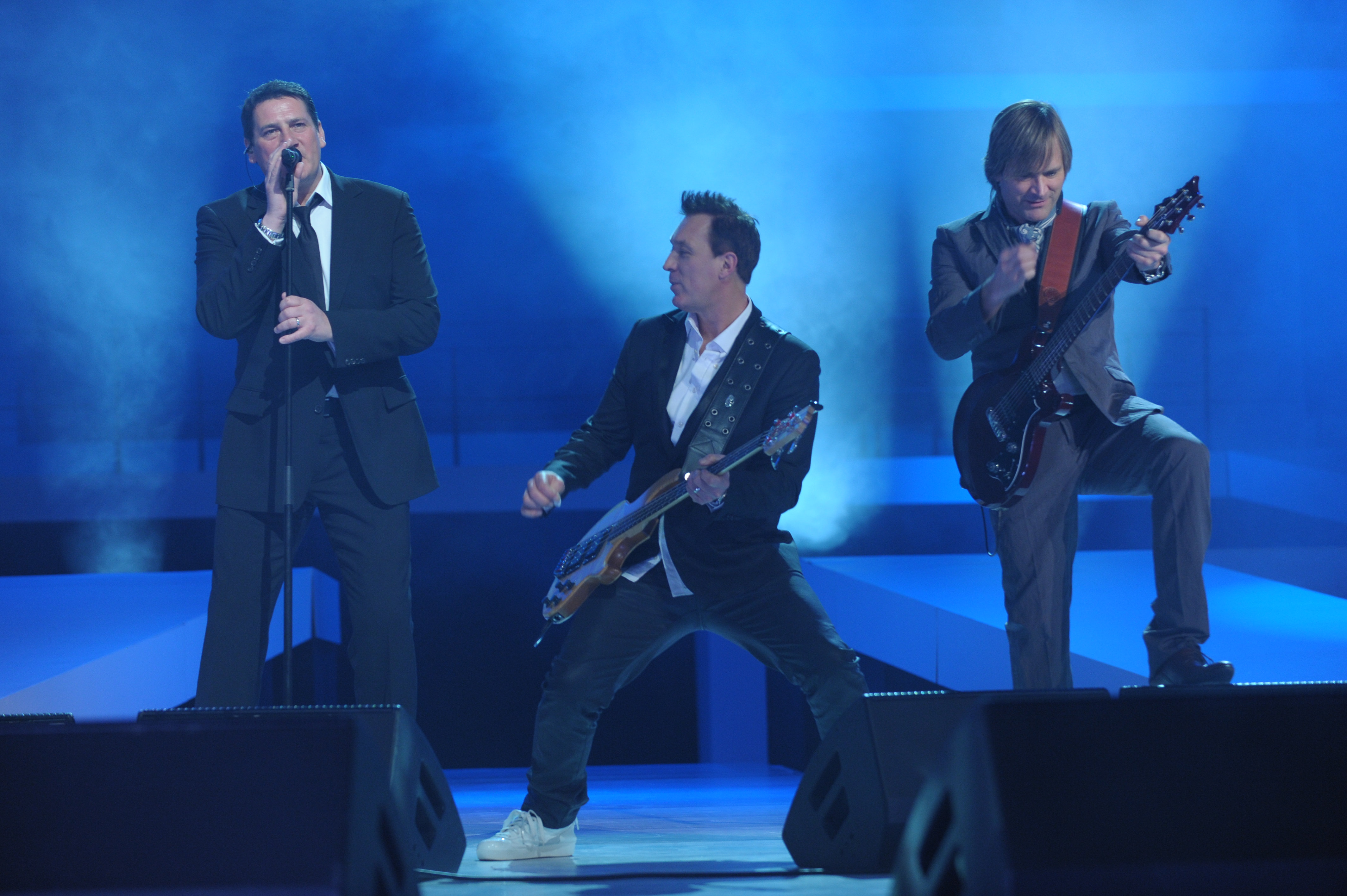 Spandau Ballet at Michalsky StyleNite